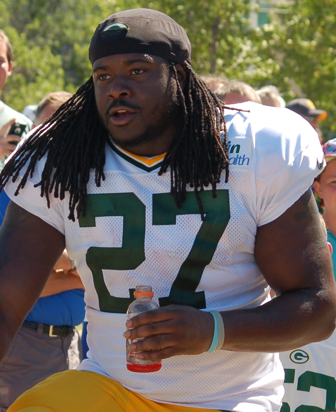 2015 Packers training camp